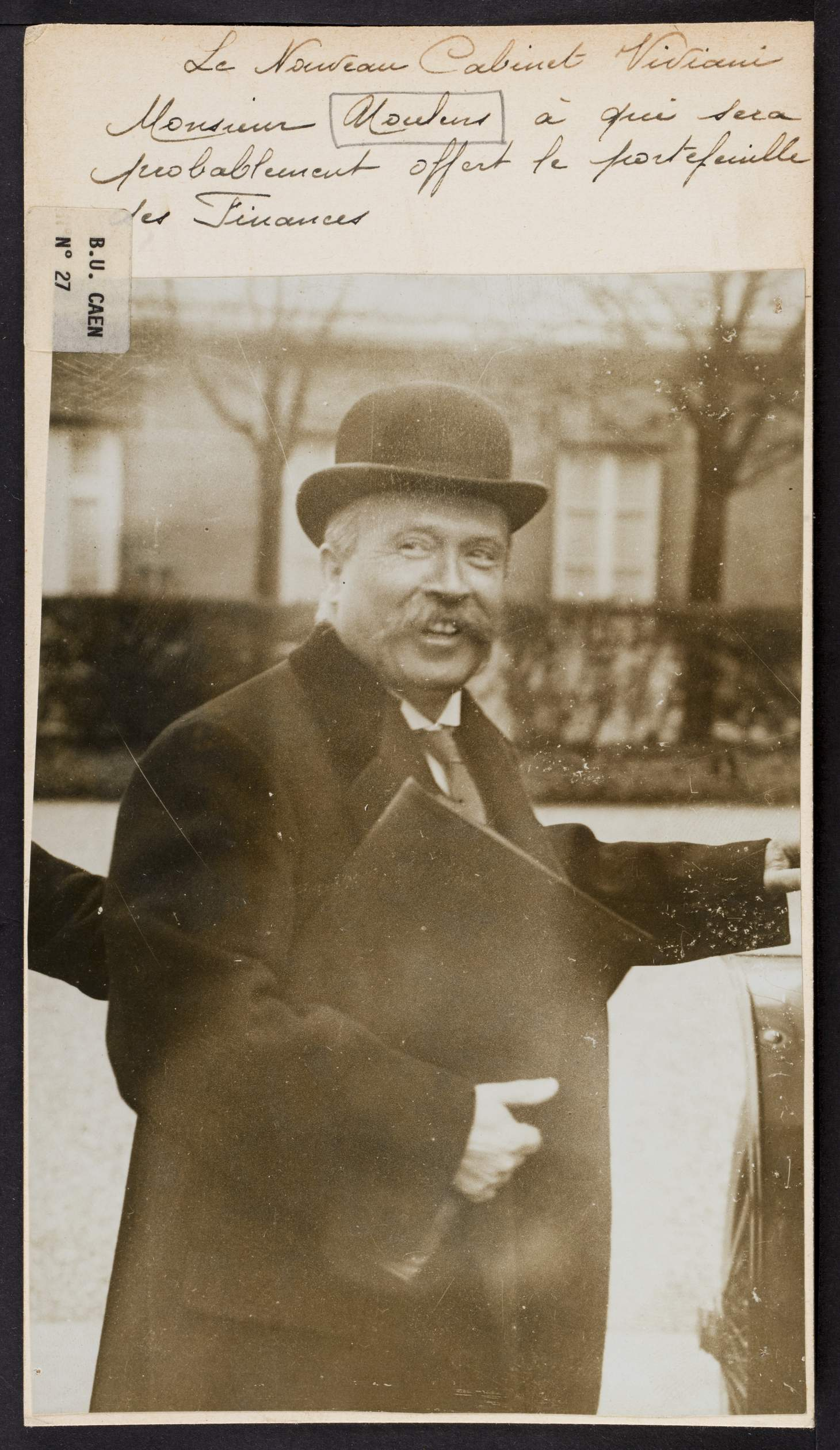 Jean-Baptiste Joseph Noulens, nouveau cabinet Viviani.